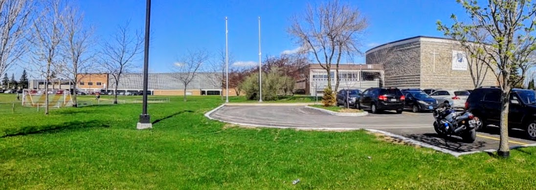 Jean-Baptiste-Meilleur high school in Repentigny, A and C wings, as well as the Affluents school board administrative centre